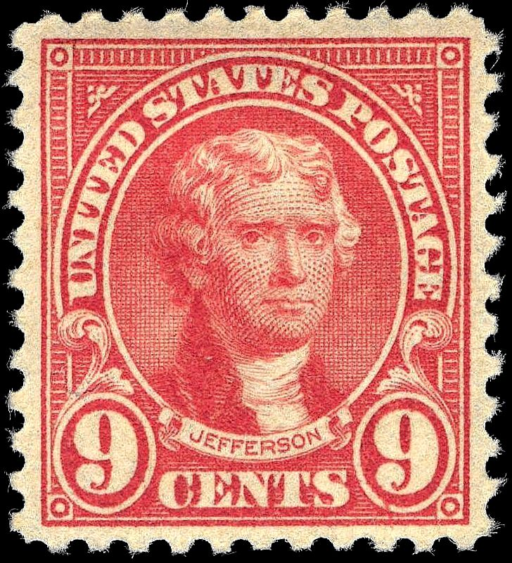 US Postage stamp, Thomas Jefferson, 1923 issue, 9c, salmon